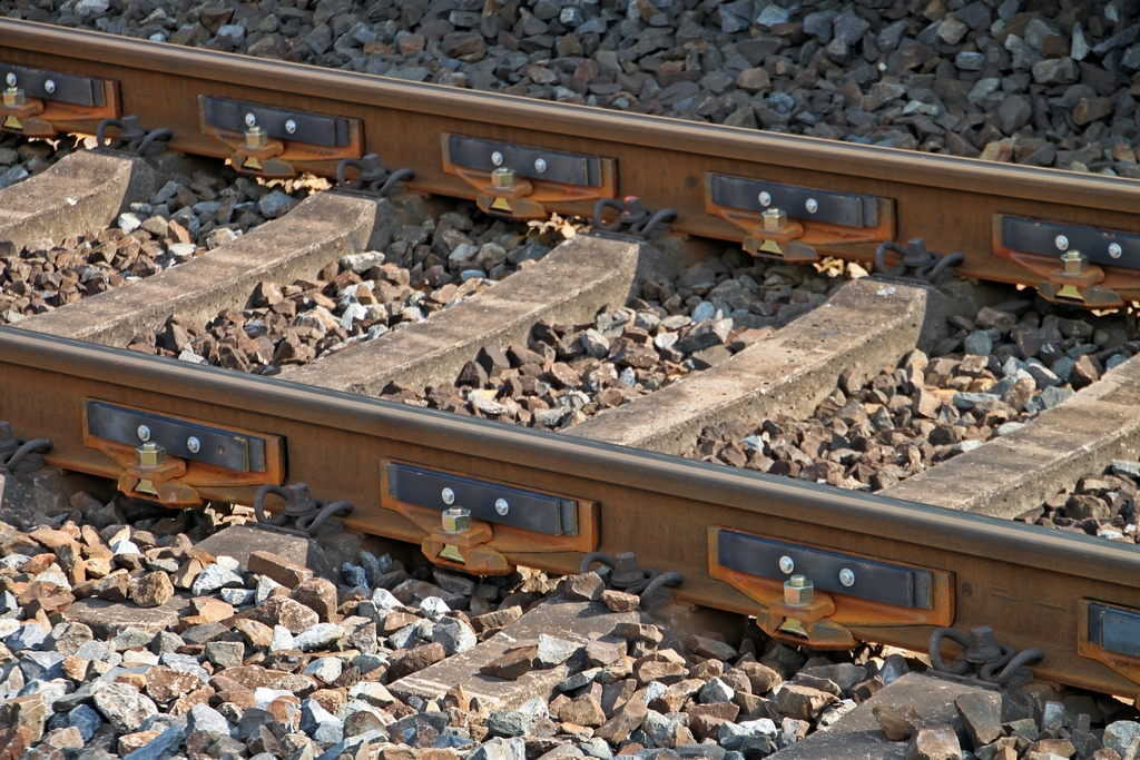 railway line from Dresden to Schandau: noise insulation in Rathen.